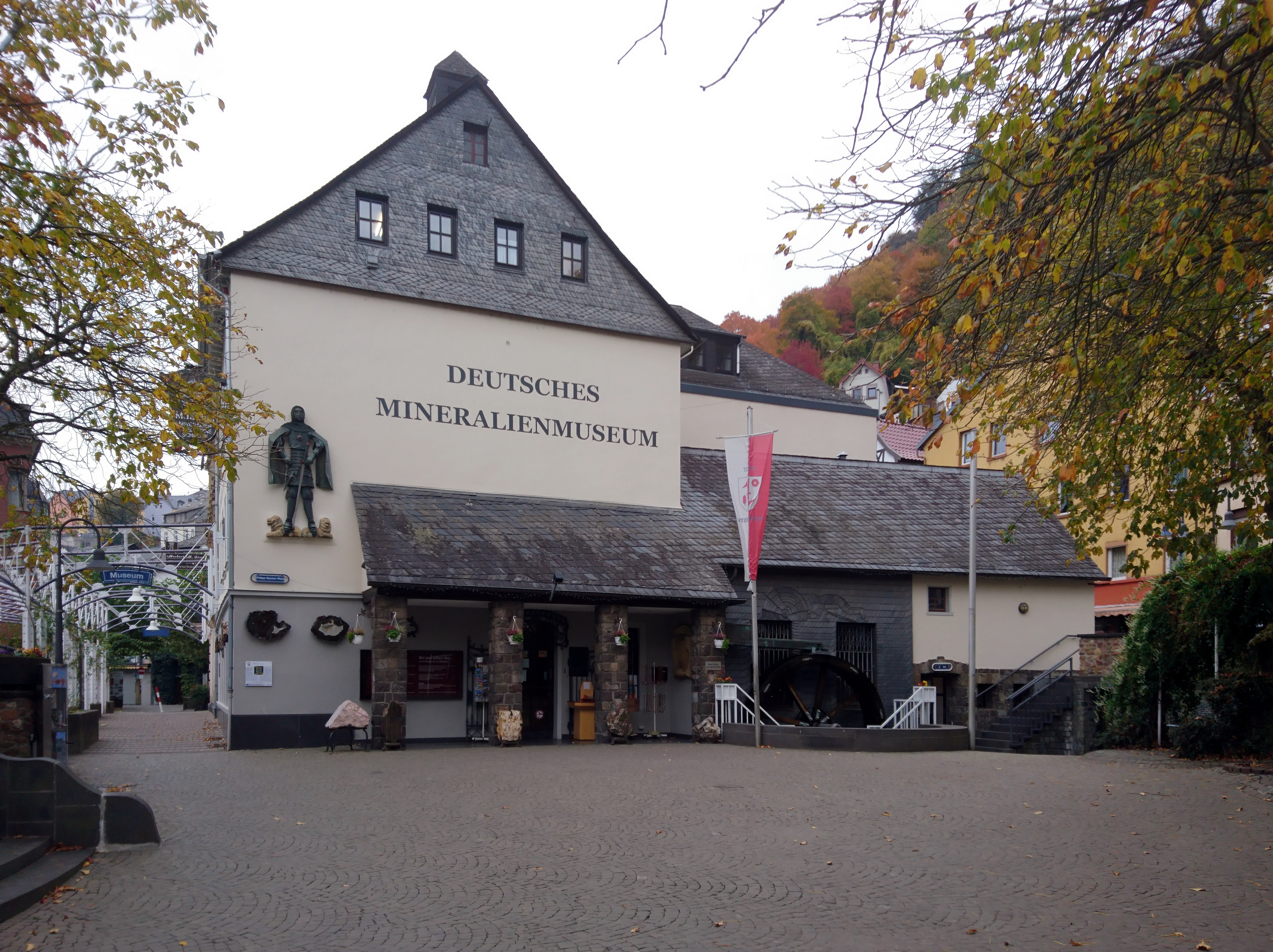 Entrance area of the German Mineral Museum in Idar-Oberstein, Rhineland-Palatinate